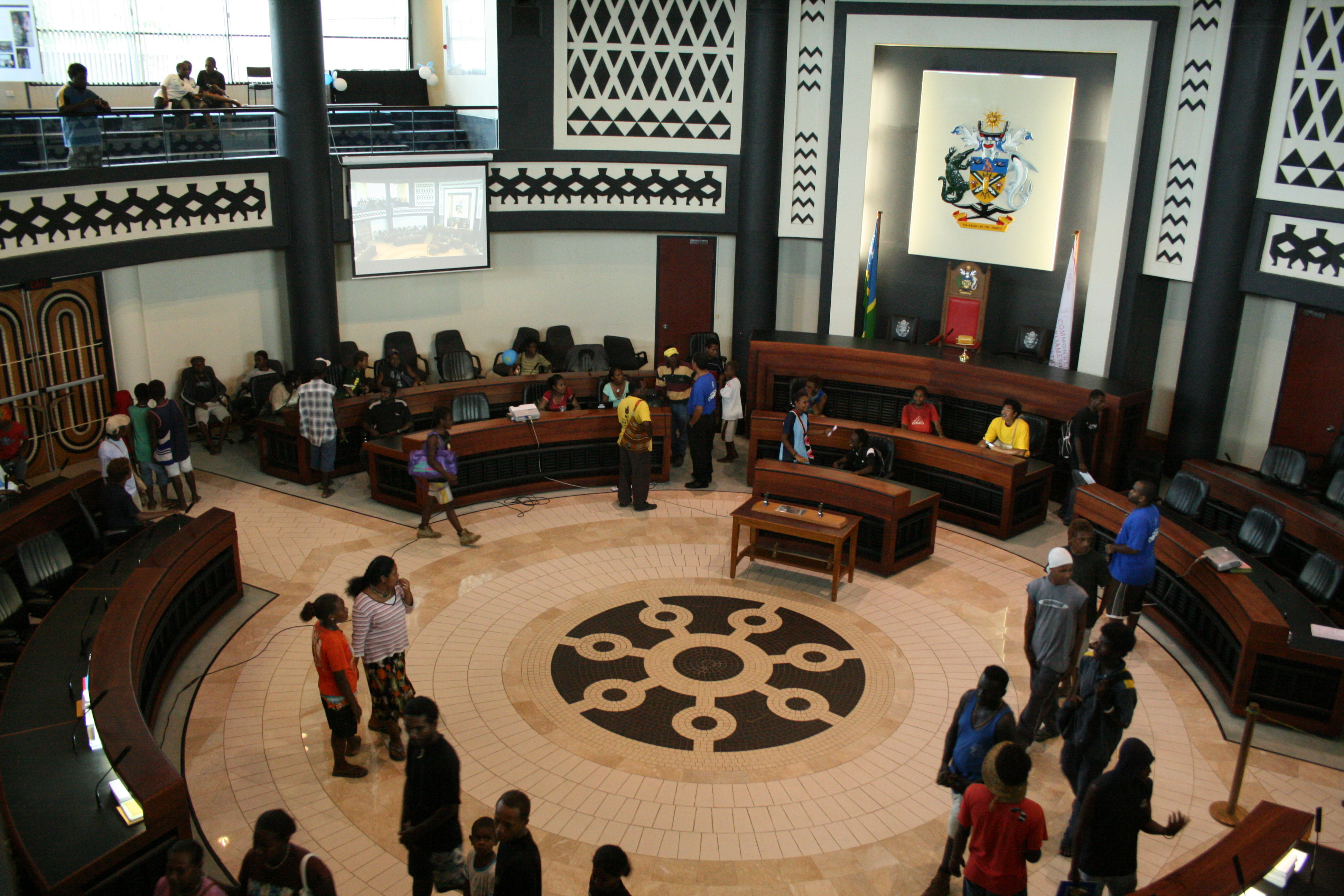 The inside of the House of Parliament in Honiara, Solomon Islands.